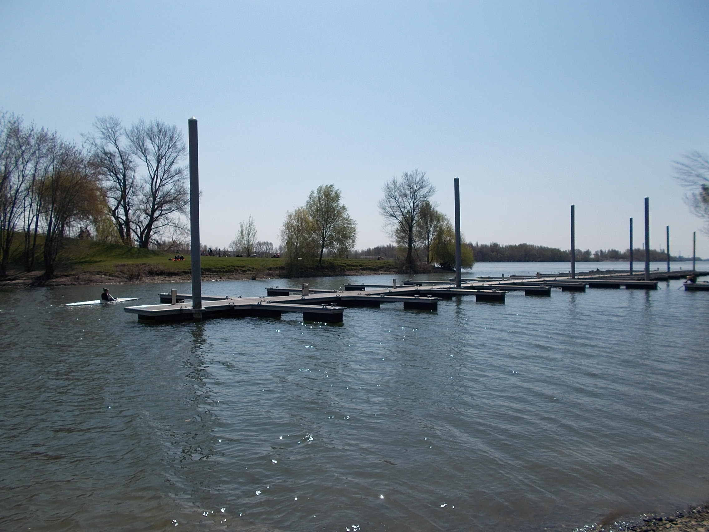 Lágymányosi Bay. Kopaszi dam. Kayak, canoe harbor. - Budapest district XI